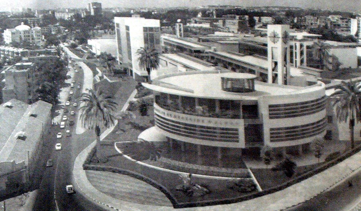 Model of the future medical school in Algiers